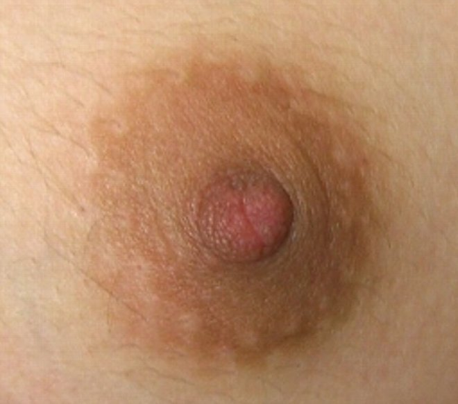 This is a photograph of one's nipple.